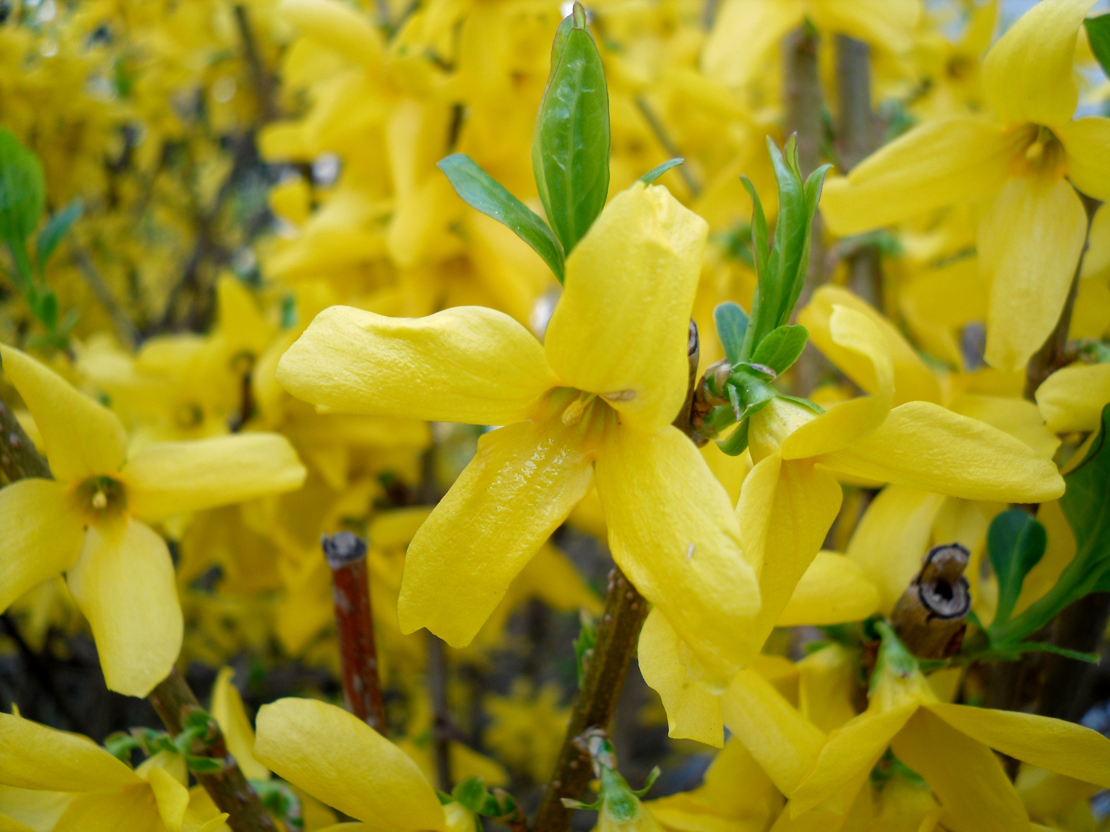 Flower of Forsythia